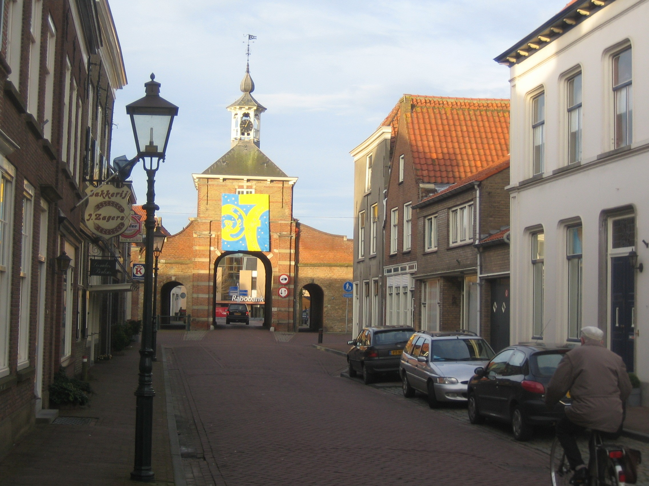 The Kaaipoort in Aardenburg recalls the location of the former harbour on the town's western side. I took this photo myself and hereby release it to the public domaine to the maximum extent possible under all relevant jurisdictions